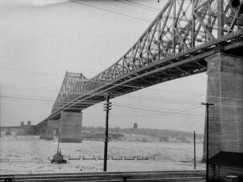 We see the Jacques-Cartier bridge over the St. Lawrence River between Montreal and Longueuil.